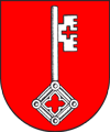 Coat of arms of Sankt Peter in der Au, Lower Austria